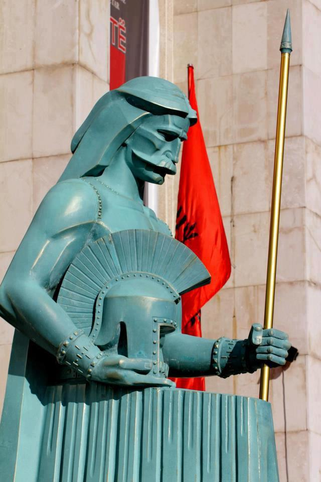 King Glaucias of TaulantiShqip: Mbreti Glaukia i Taulanteve